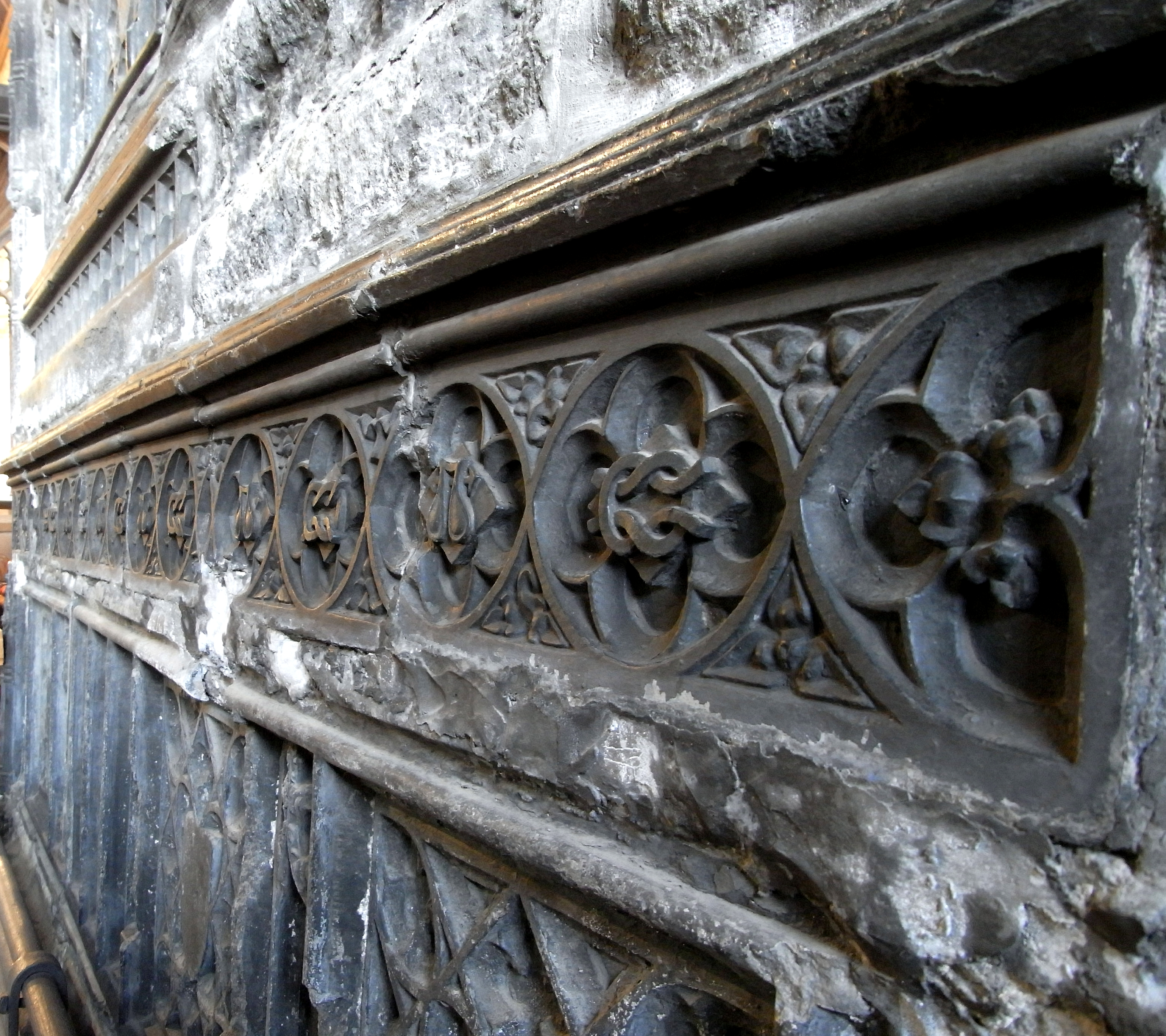 Remnants of tomb chest of Thomasine Hankford (d.1453), wife of William Bourchier (1407-1470) jure uxoris 9th Baron FitzWarin, feudal baron of Bampton. North wall of chancel, Bampton Church, Devon. Displays in a row within quatrefoils Bourchier Knots alternating with water bougets of Bourchier arms. (Pevsner, Nikolaus & Cherry, Bridget, The Buildings of England: Devon, London, 2004, p.147